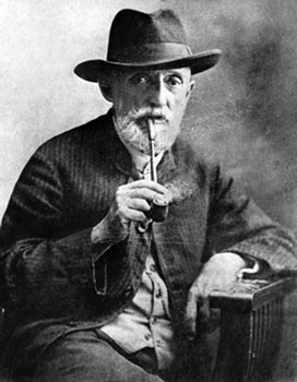 Francisco Oller (1833-1917), portorican impressionist painter